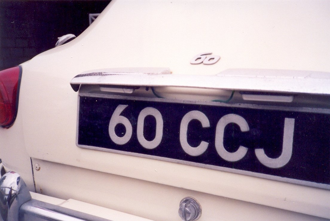 Saab 60 photographed by Ballista